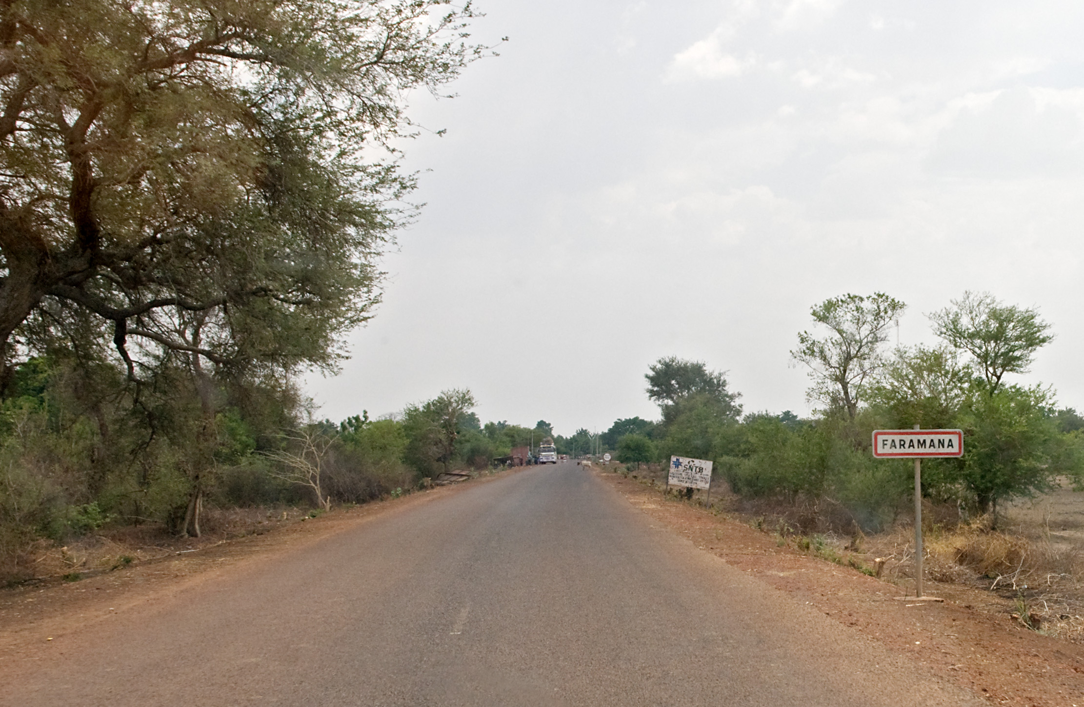 Approaching Faramana and the border police station barrier from the Malinese border